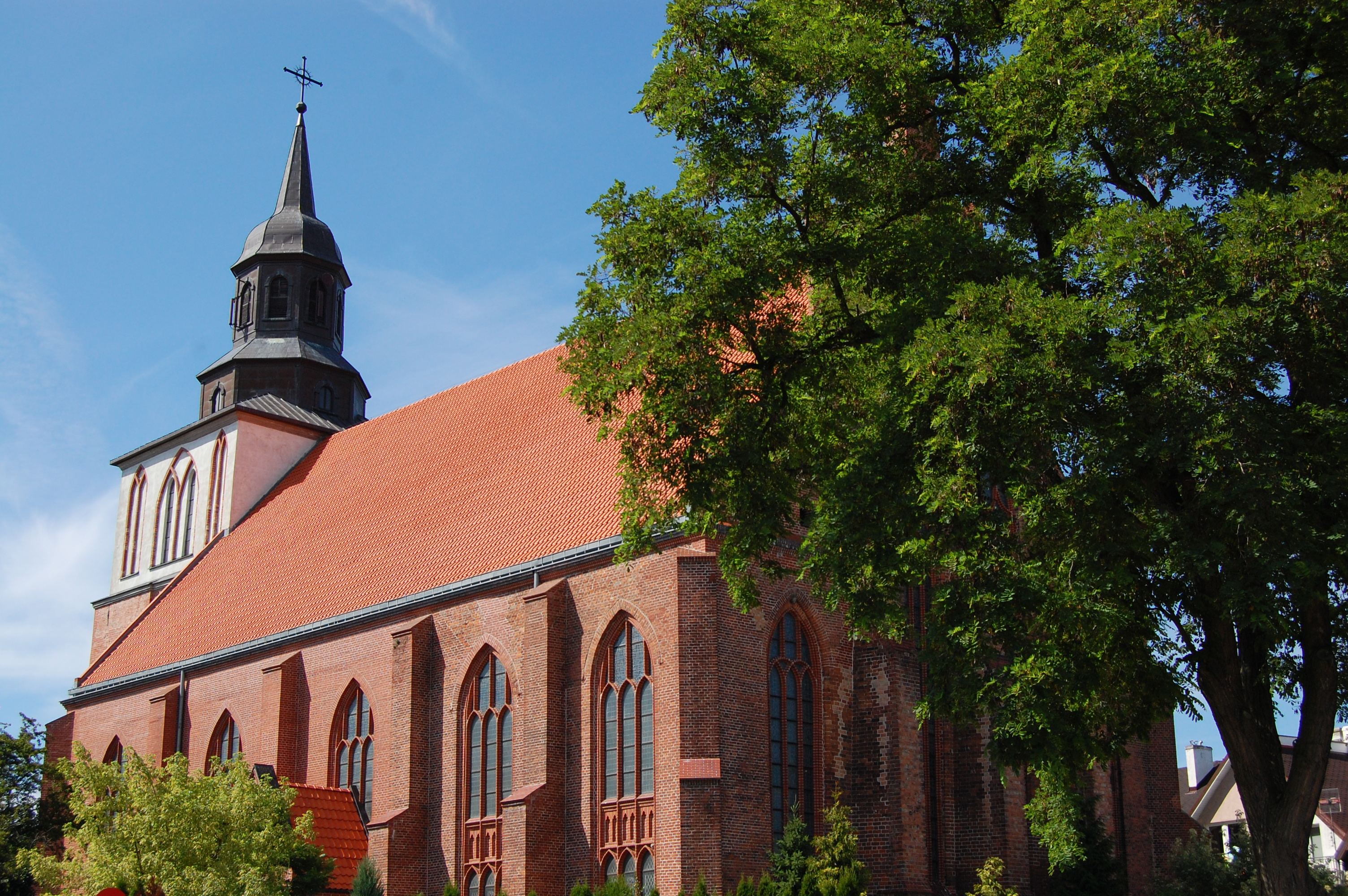 Church of St. Nicolaus in Wolin